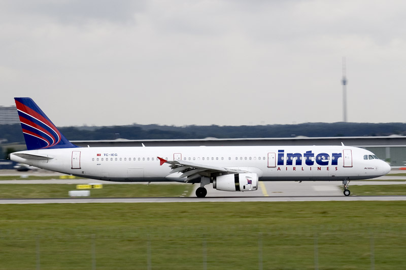 Inter Airlines Airbus A321 (TC-IEG) at Stuttgart Airport